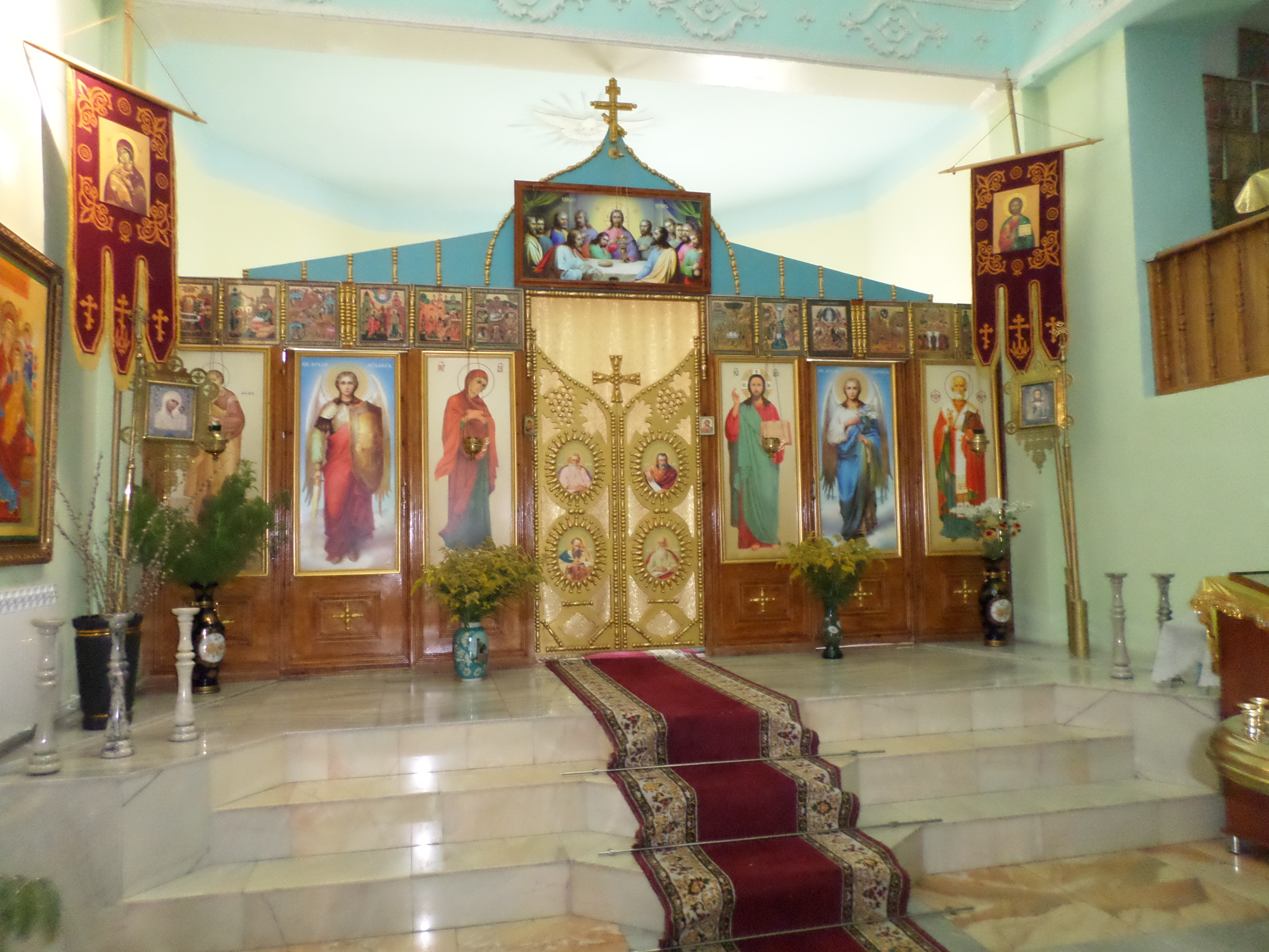 Church in Zarafshon